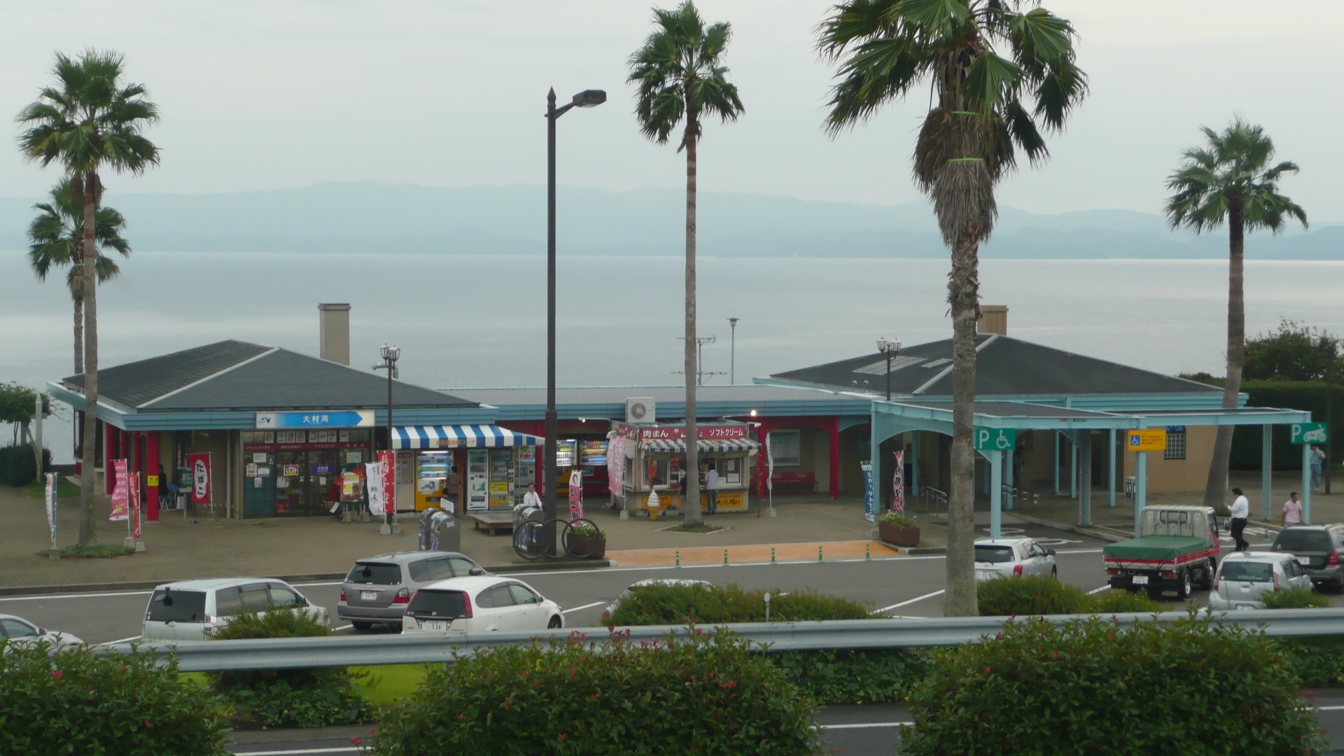 Omurawan Rest Area (Nagasaki Expressway - Higashisonogi Town, Nagasaki, Japan)